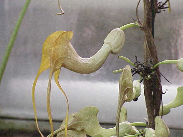 Species: Pararistolochia promissa Family: Aristolochiaceae Image No. 2